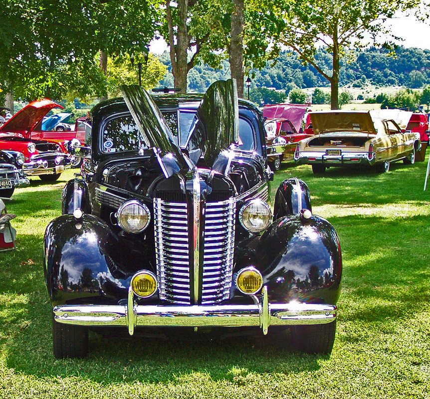 Ben's Buick. "Ben Smith and his wife drive the 1938 Buick to car shows. It's in mint condition and and all original. When it was new I was in 8th grade . Seeing it at the Gallipolis, Ohio show along the Ohio River brought memories of that year. "